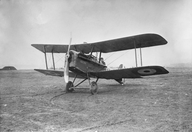 France. An SE5 British aeroplane, with Captain Phillipps MC, DFC of the Australian Flying Corps (AFC), in the pilot's seat. The DH5 machines initially used by the AFC were subsequently replaced by these aeroplanes.